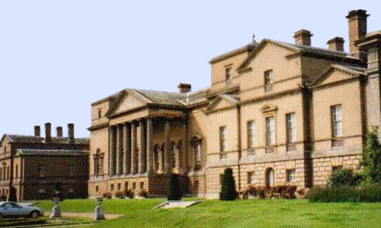 Holkham Hall, Norfolk